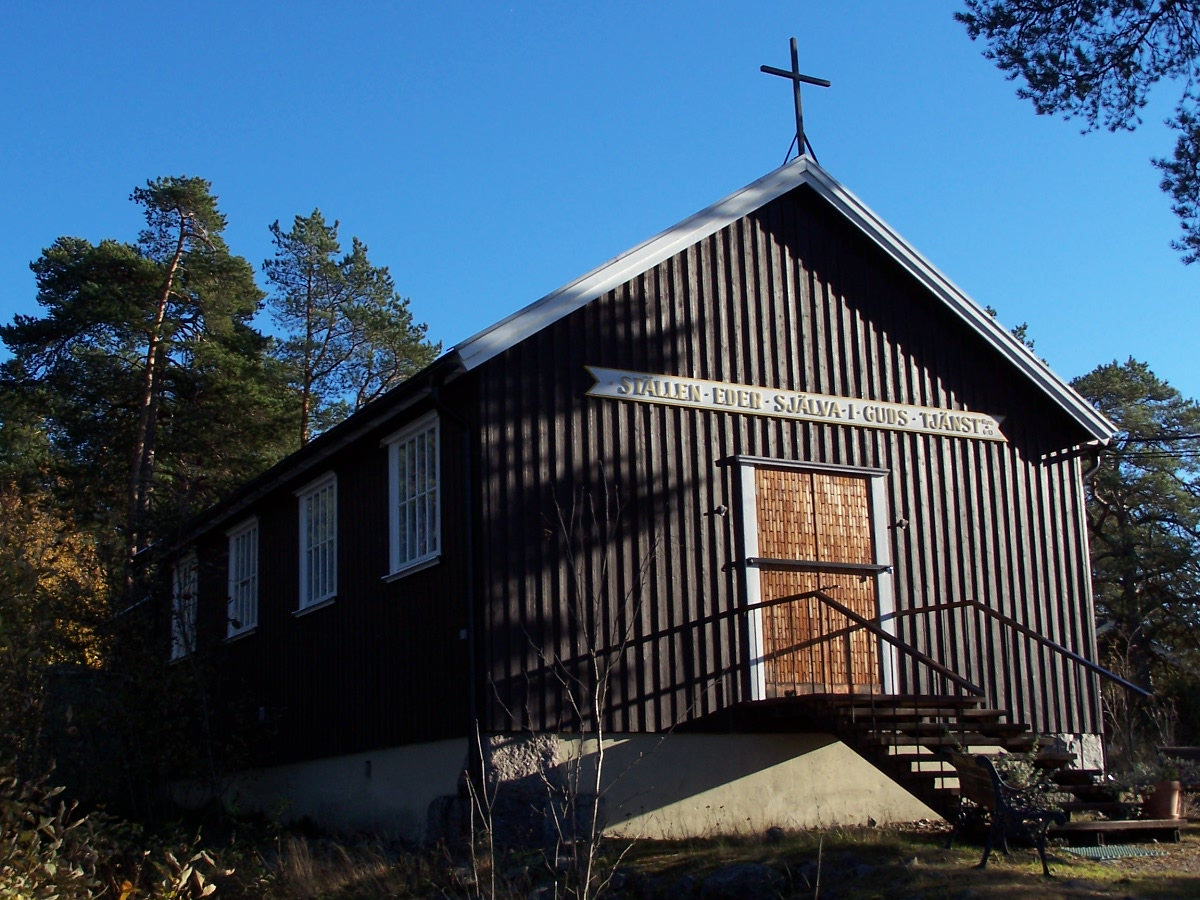 Spikarö chapel, Sweden